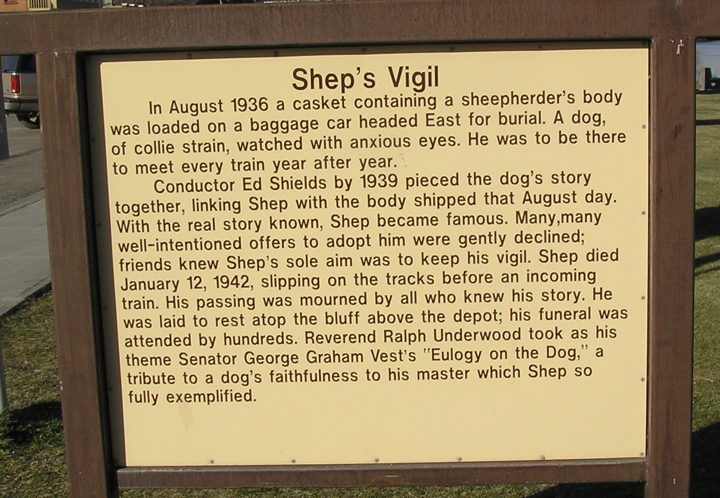 Historical marker sign by Shep statue, Fort Benton, Montana